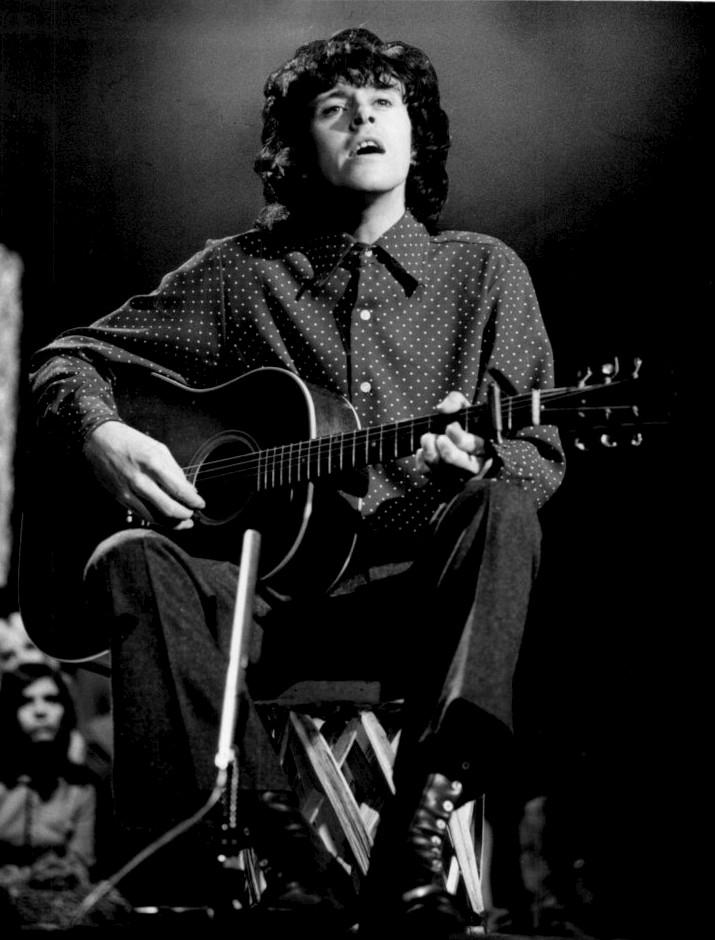 Photo of Donovan performing on The Smother Brothers television program.